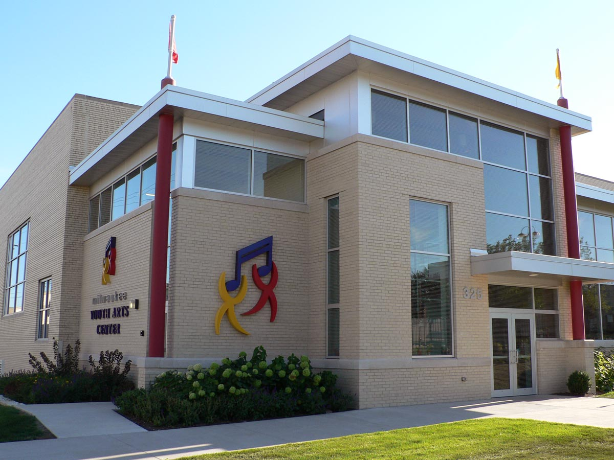 Copyright © 2006 Sulfur The Milwaukee Youth Arts Center is an education and rehearsal facility located across from the Joseph Schlitz Brewery Complex in Milwaukee, Wisconsin.